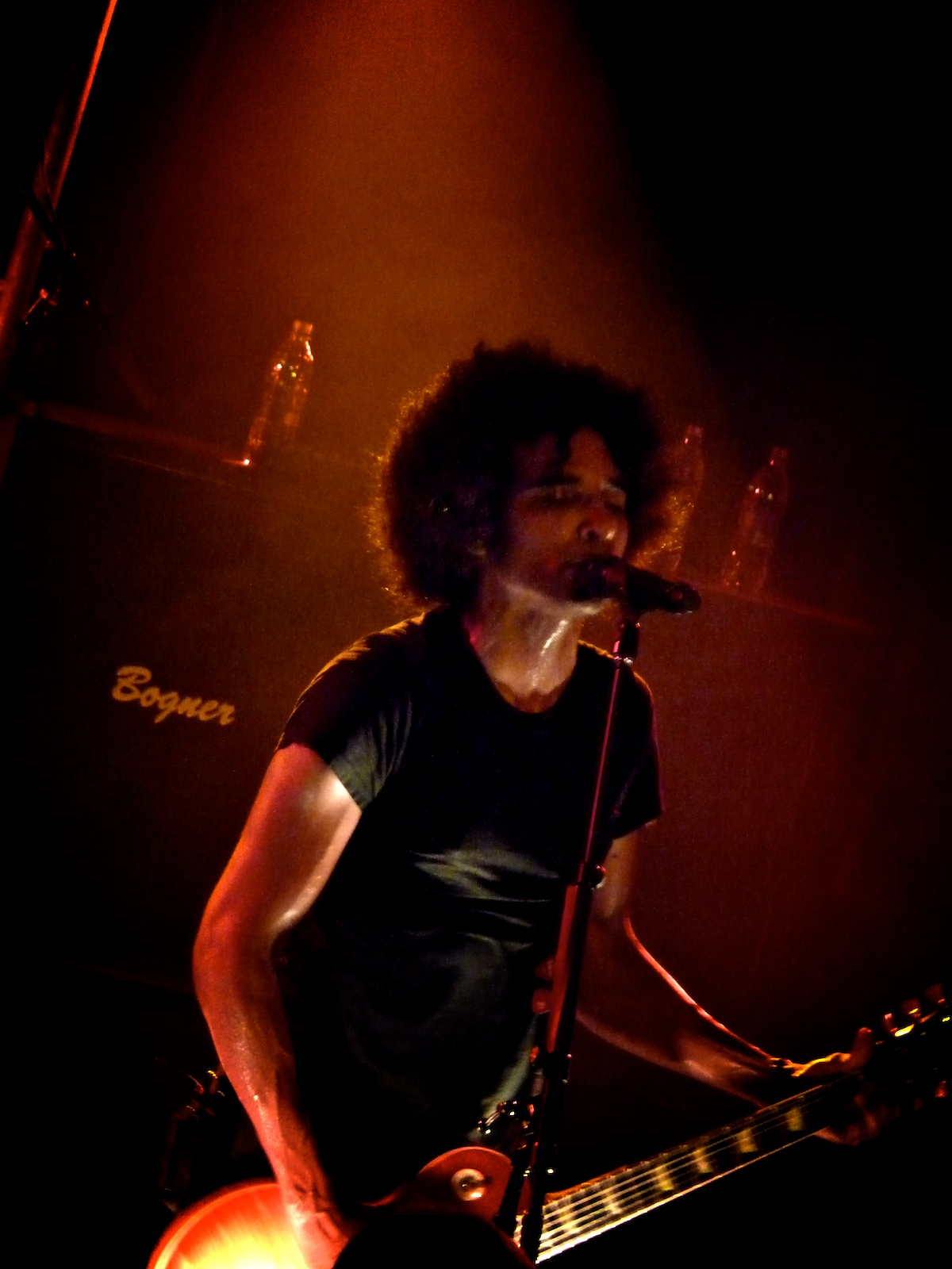 William DuVall live at 2009